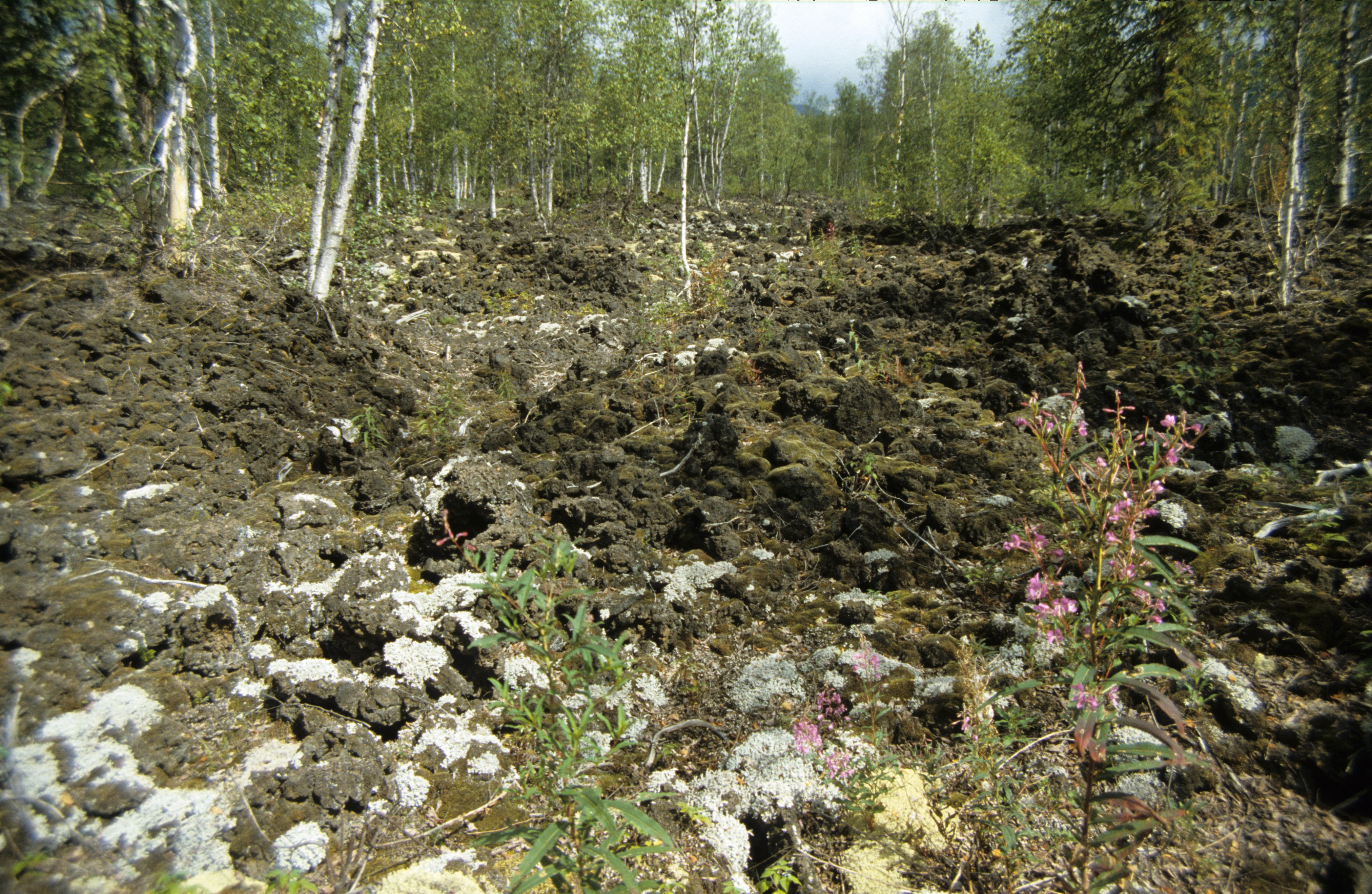 Photo by Roland Neave, contributor to Wells Gray Park articles.